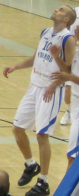 Tuukka Kotti in 2010